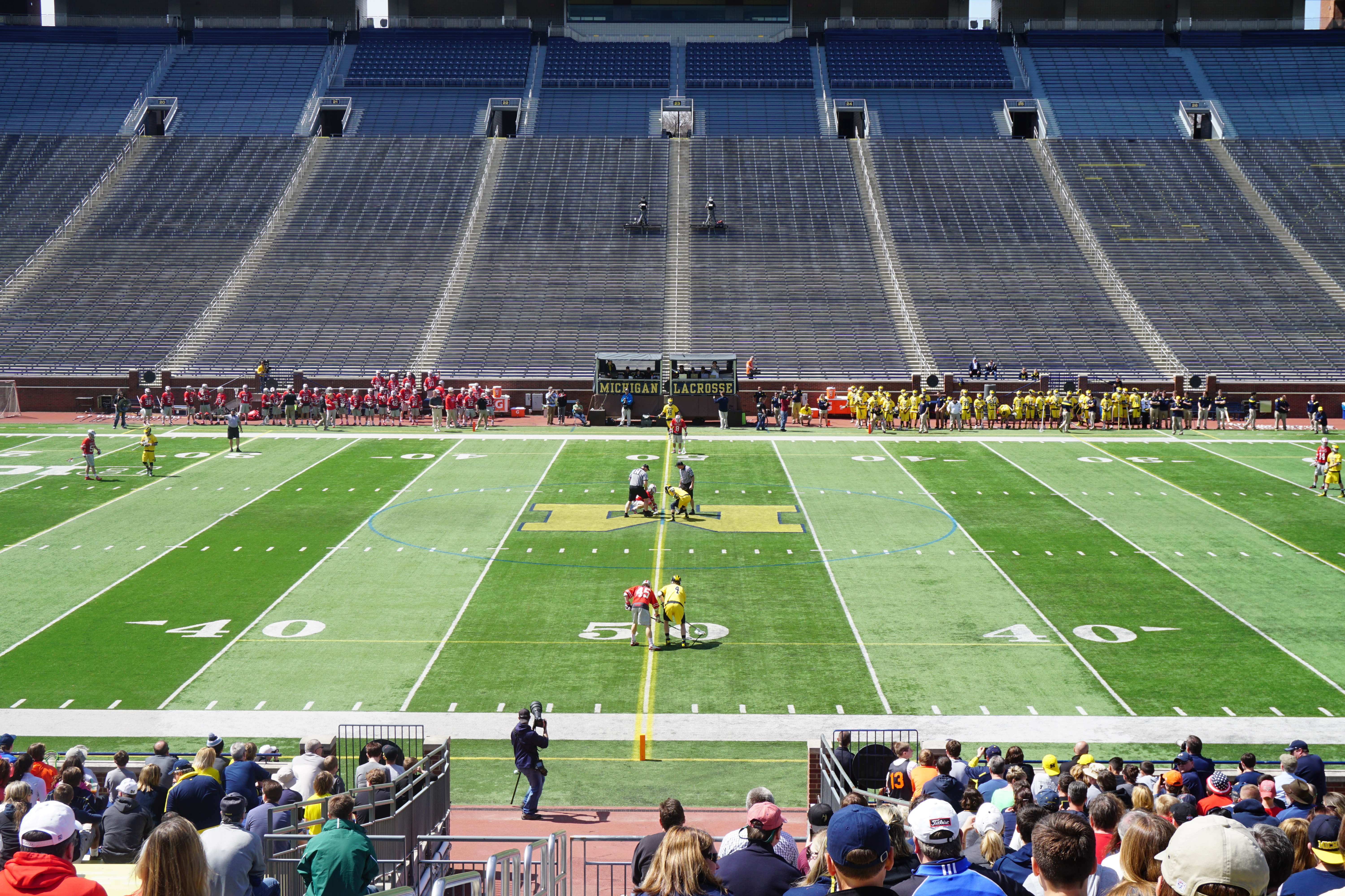 In-game action during the Ohio State Buckeyes vs. Michigan Wolverines men's lacrosse game at Michigan Stadium in Ann Arbor, Michigan (United States). Ohio State won 13–8.